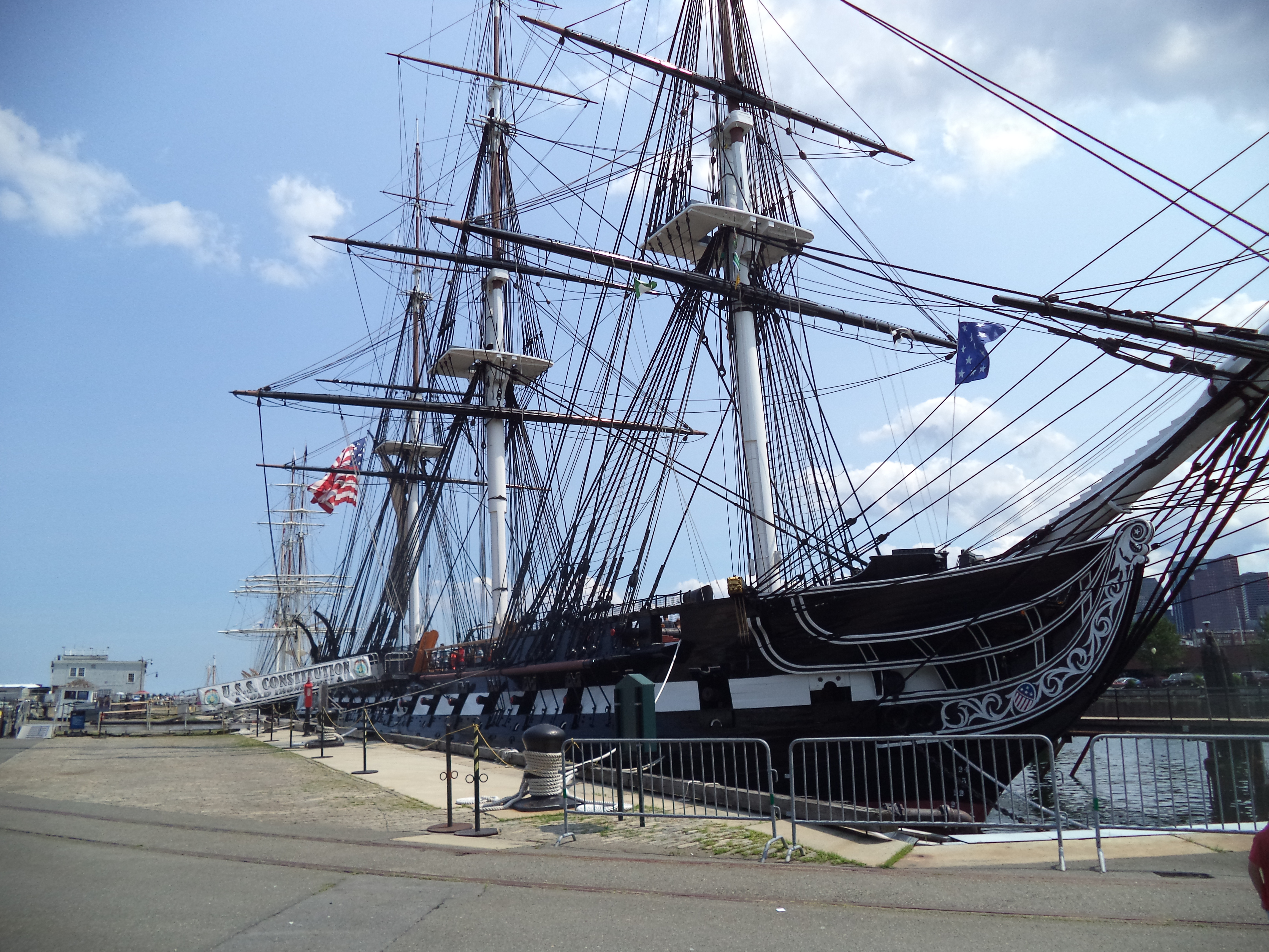 U.S.S. CONSTITUTION, Boston Naval Shipyard Charlestown